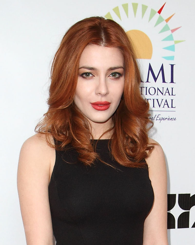 Actress Elena Satine at the 2012 Miami International Film Festival for the world premiere of the TV series Magic City, episode The Year of the Fin, at the Colony Theater, Miami Beach.